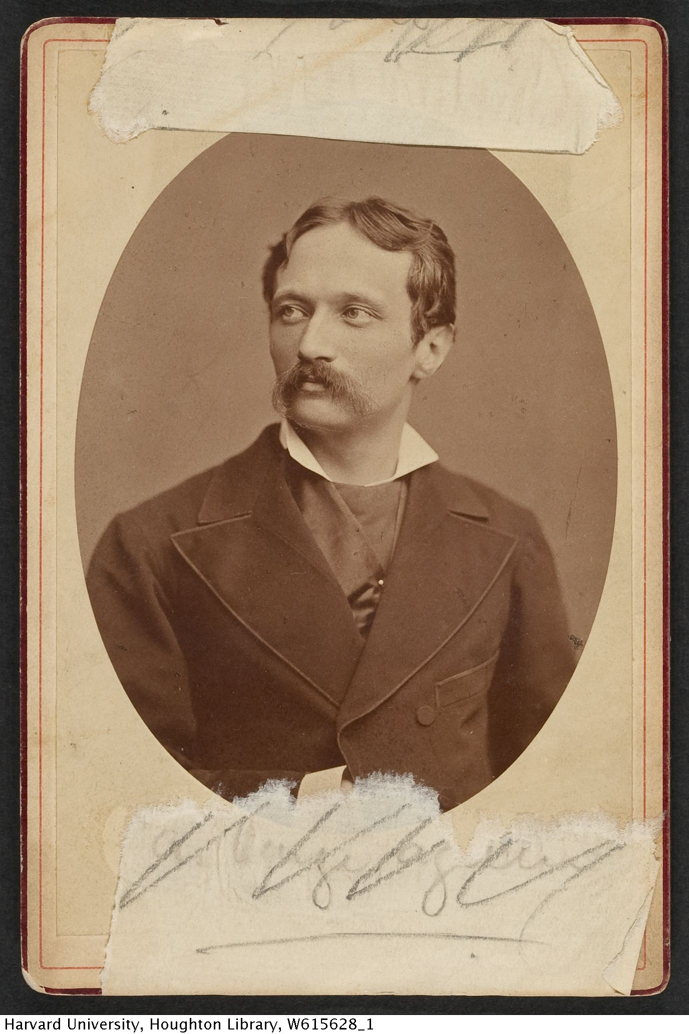 Cabinet card image of Italian writer, librettist, and composer Arrigo Boito (1842-1918). Original image is slightly compromised by tape and markings. TCS 1.2726, Harvard Theatre Collection, Harvard University.